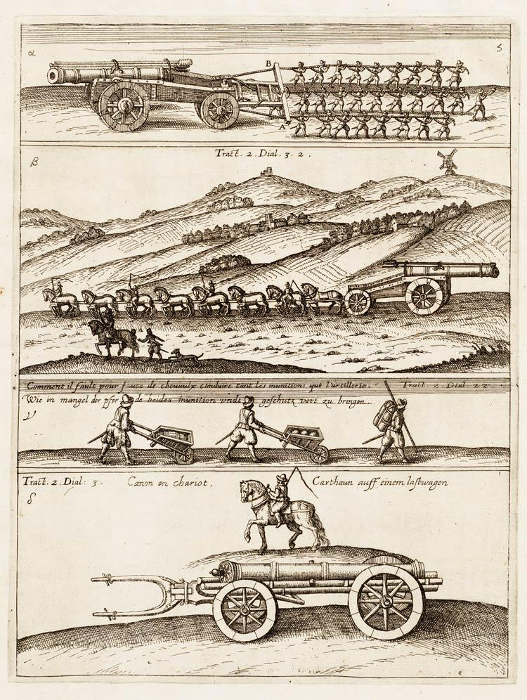 Transport of artillery early 17th century